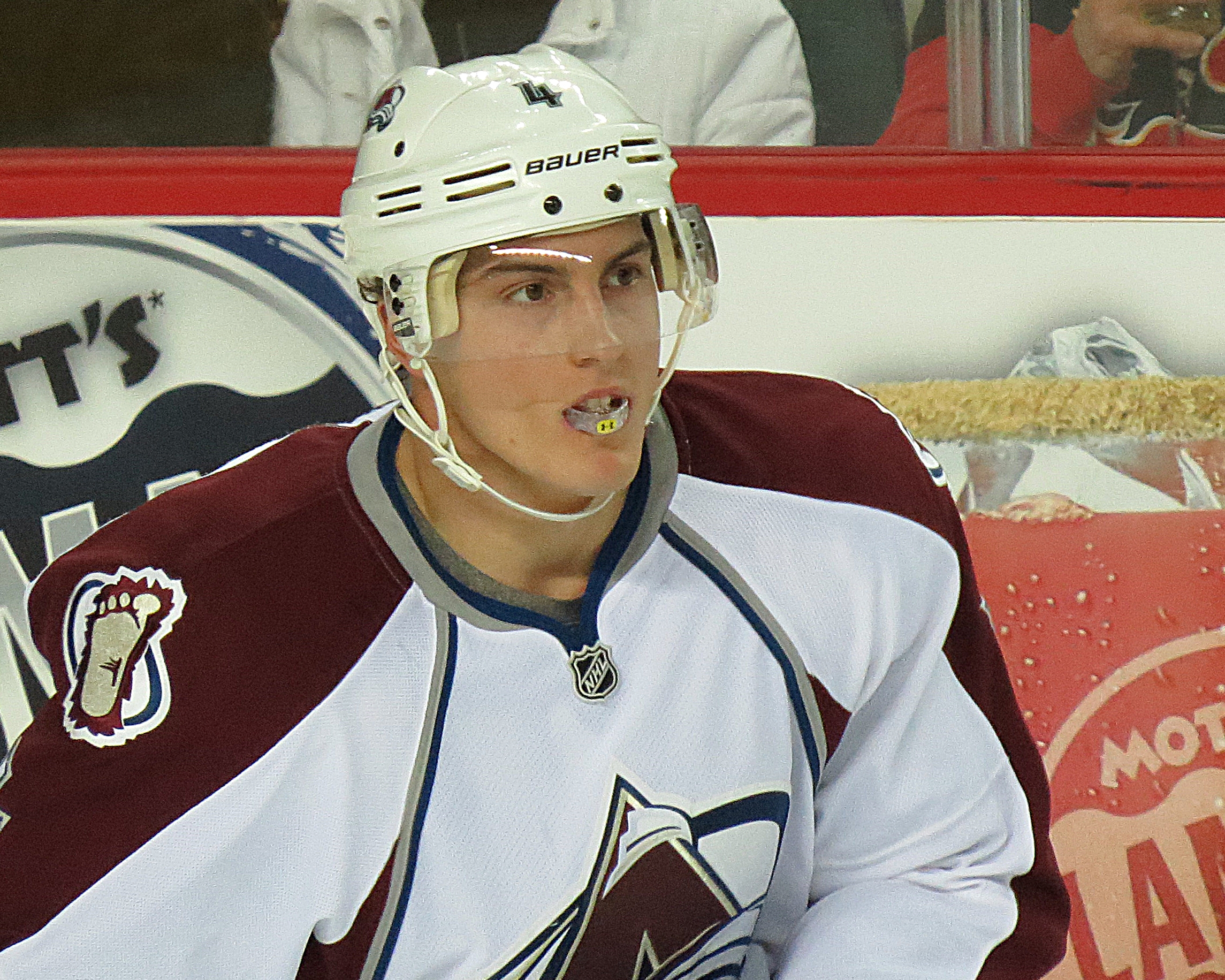 Tyson Barrie of the Colorado Avalanche during the 2013–14 season.